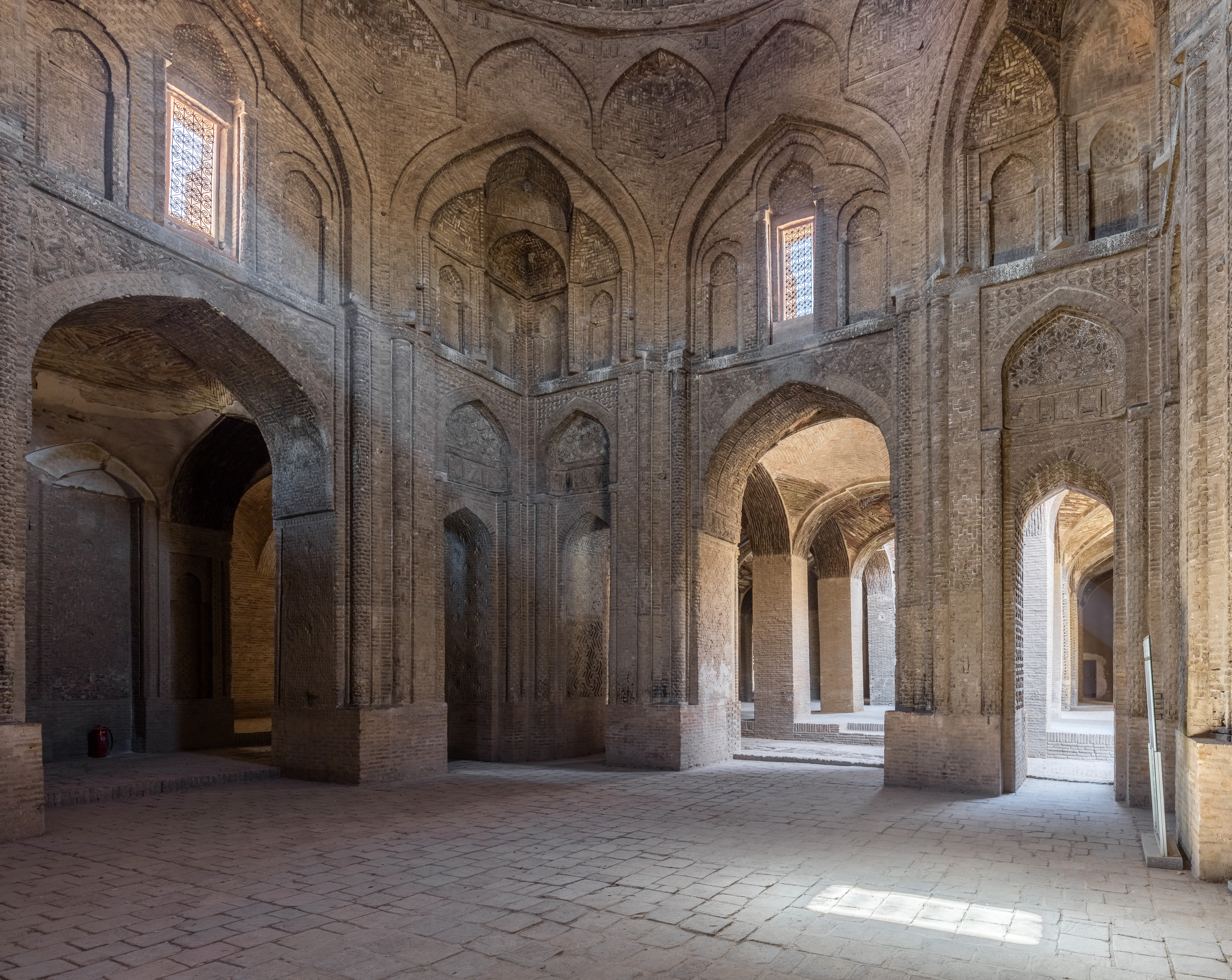 Crepuscular ray of light in the north dome room of the Jameh Mosque of Isfahan, Isfahan, Iran. The mosque, a UNESCO World Heritage site, is one of the oldest still standing buildings in Iran. It was erected in 771 and its architecture was continuously changed until the 20th century.